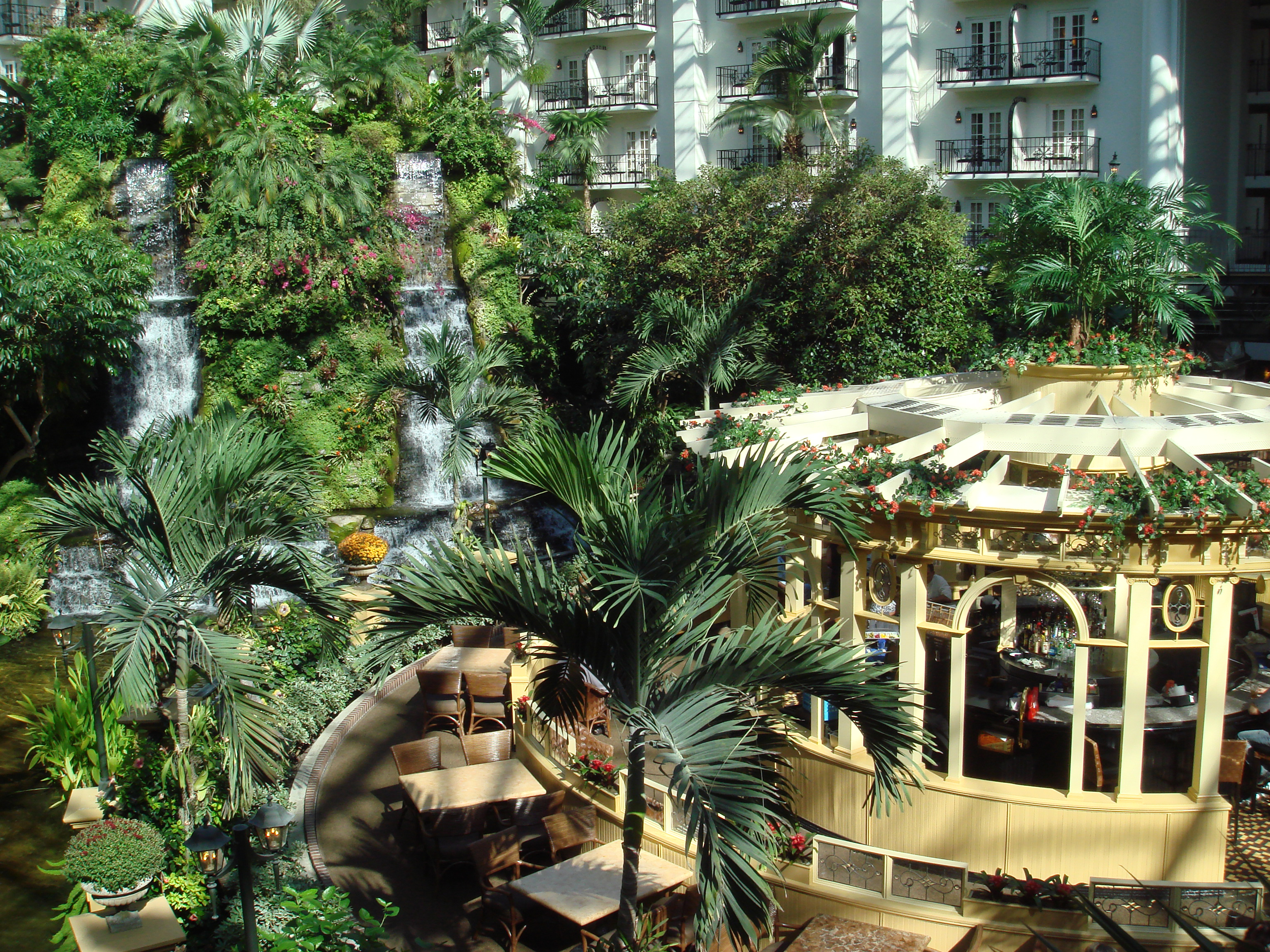 The eponymous waterfall of the Cascade Atrium, Gaylord Opryland Resort & Convention Center, Nashville, Tennessee